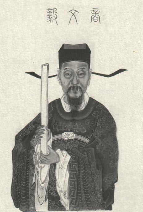 Shang Lu, politician of the Ming Dynasty.